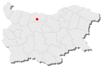 Map of Bulgaria, the red point is the position of Pleven.